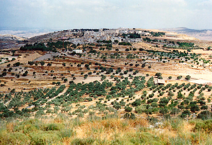 Kur_arab_village